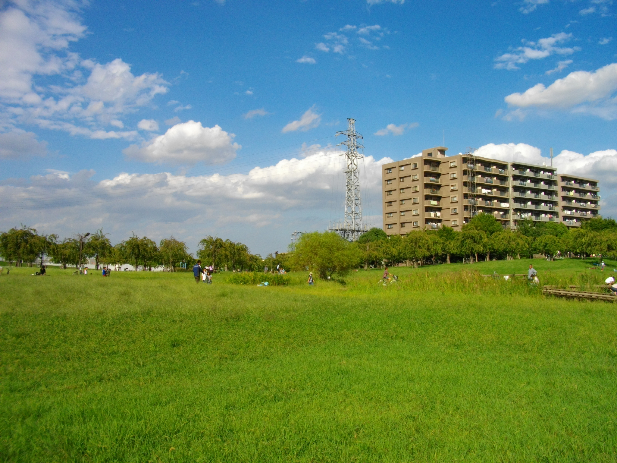 Ogu no Hara Park